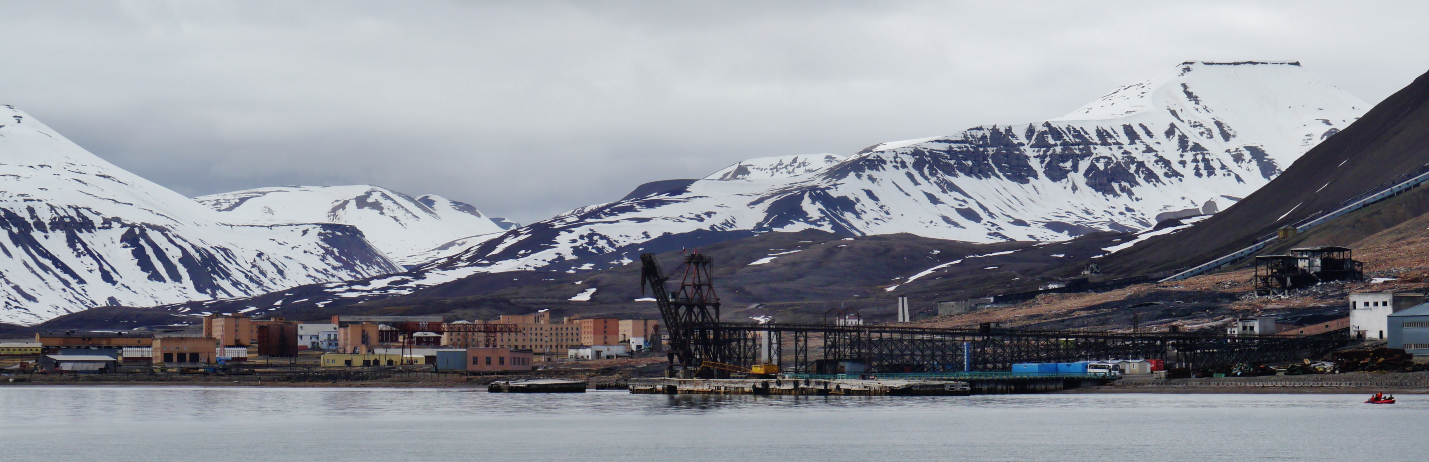 Pyramiden, Spitsbergen, Norway